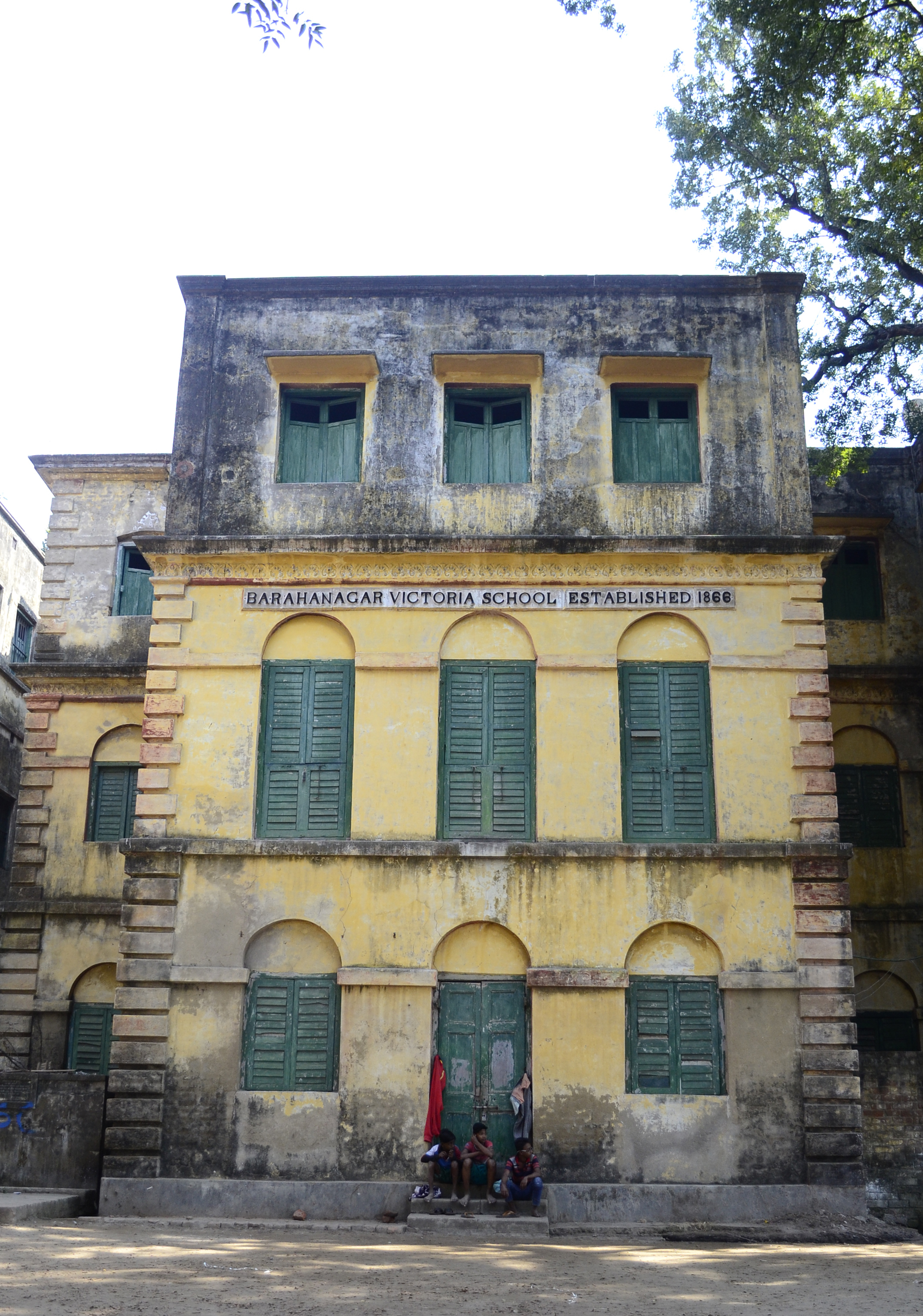 Barahanagar Victoria School, Estd in 1866,near Kuthi Ghat